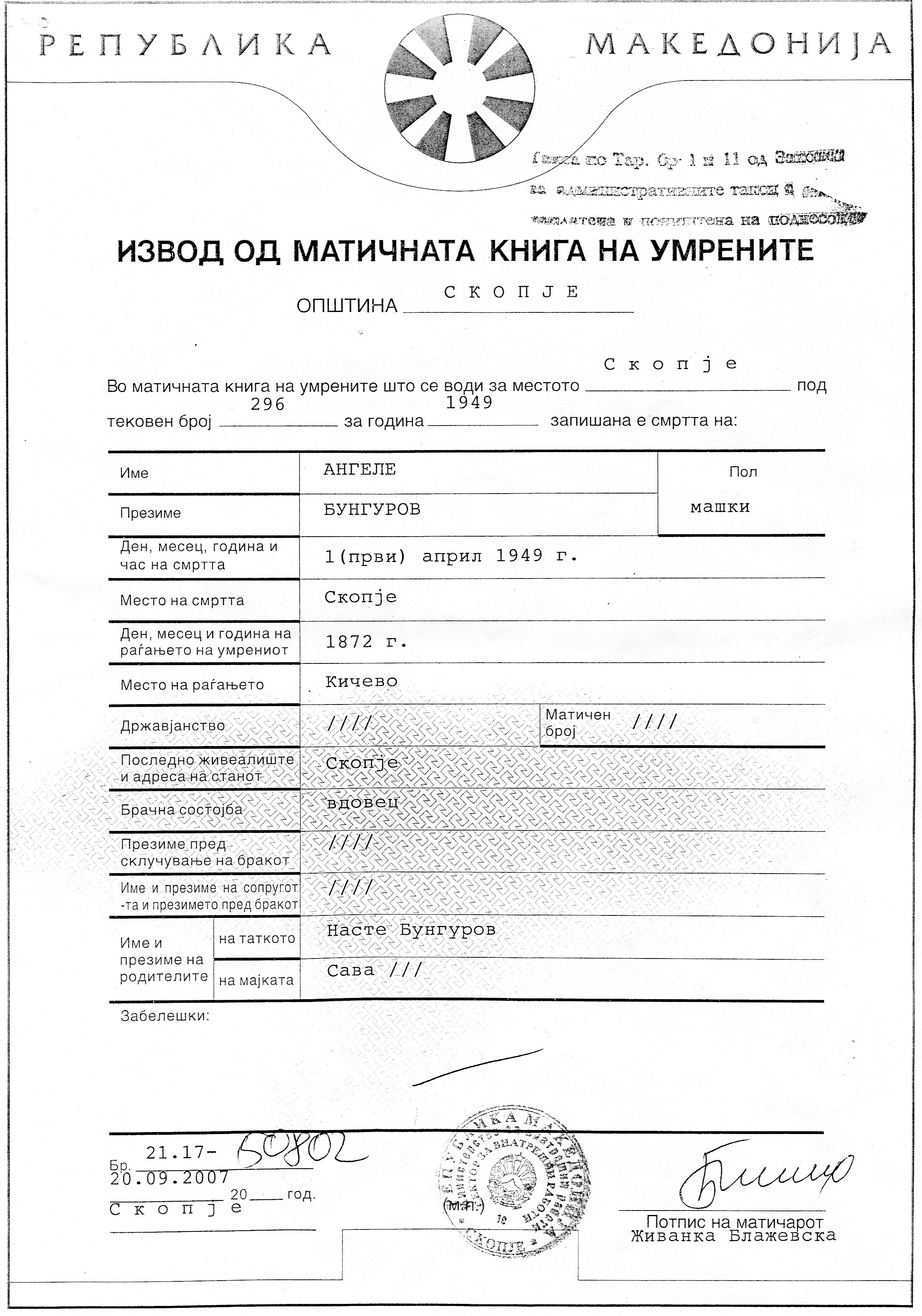 Document of Angele Bungorov